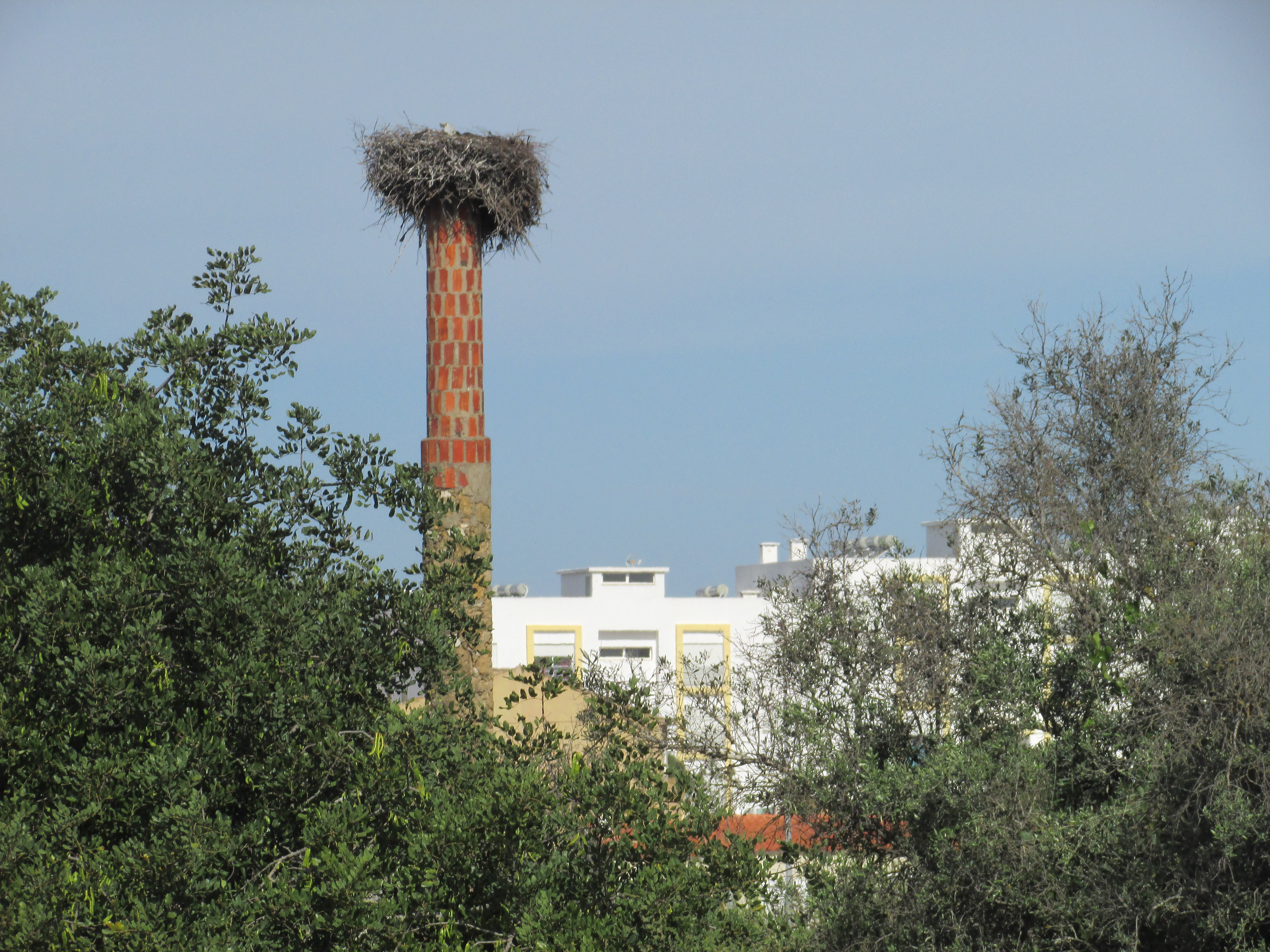 A chimney with storks nest found in the neighbourhood of Ferreiras which is north of the city of Albufeira, Algarve, Portugal.